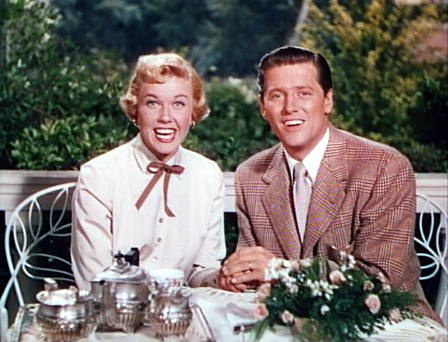 Cropped screenshot of Doris Day and Gordon MacRae from the trailer for the film Tea for Two (1950).